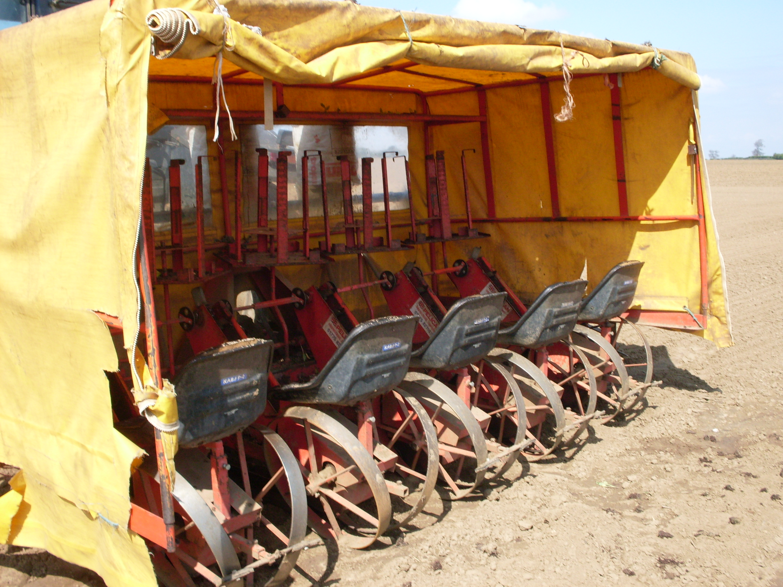 Mechanical transplanter near Chipping Campden, England. The planted field can be seen on picture File:Pflanzmaschine-03.JPG.